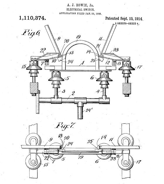 Image from patent of electrical switch invented by AJ Bowie, 1906. From the original document: Application filed January 23, 1906. Serial No. 297,433. To all whom it may concern, Be it known that I, Augustus J. Bowie, Jr., a citizen of the United States, residing in San Francisco city and county, State of California, have invented certain new and useful Improvements in Electrical Switches; and I do hereby declare the following to be and exact description of the invention, such as will enable others skilled in the art to which it appertains to make and use the same. This invention relates of electric switches; The object of the invention is to provide a switch which shall be durable and shall promptly and surely destroy arcs formed at a complete and perfect break in the circuit to be interrupted….